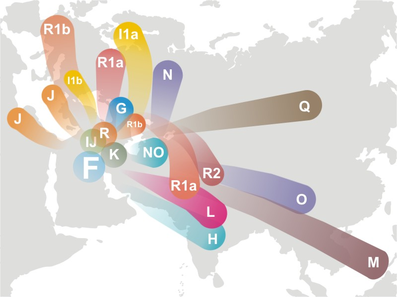 map showing the diversion of Haplogroup F (Y-DNA) and its descendants.